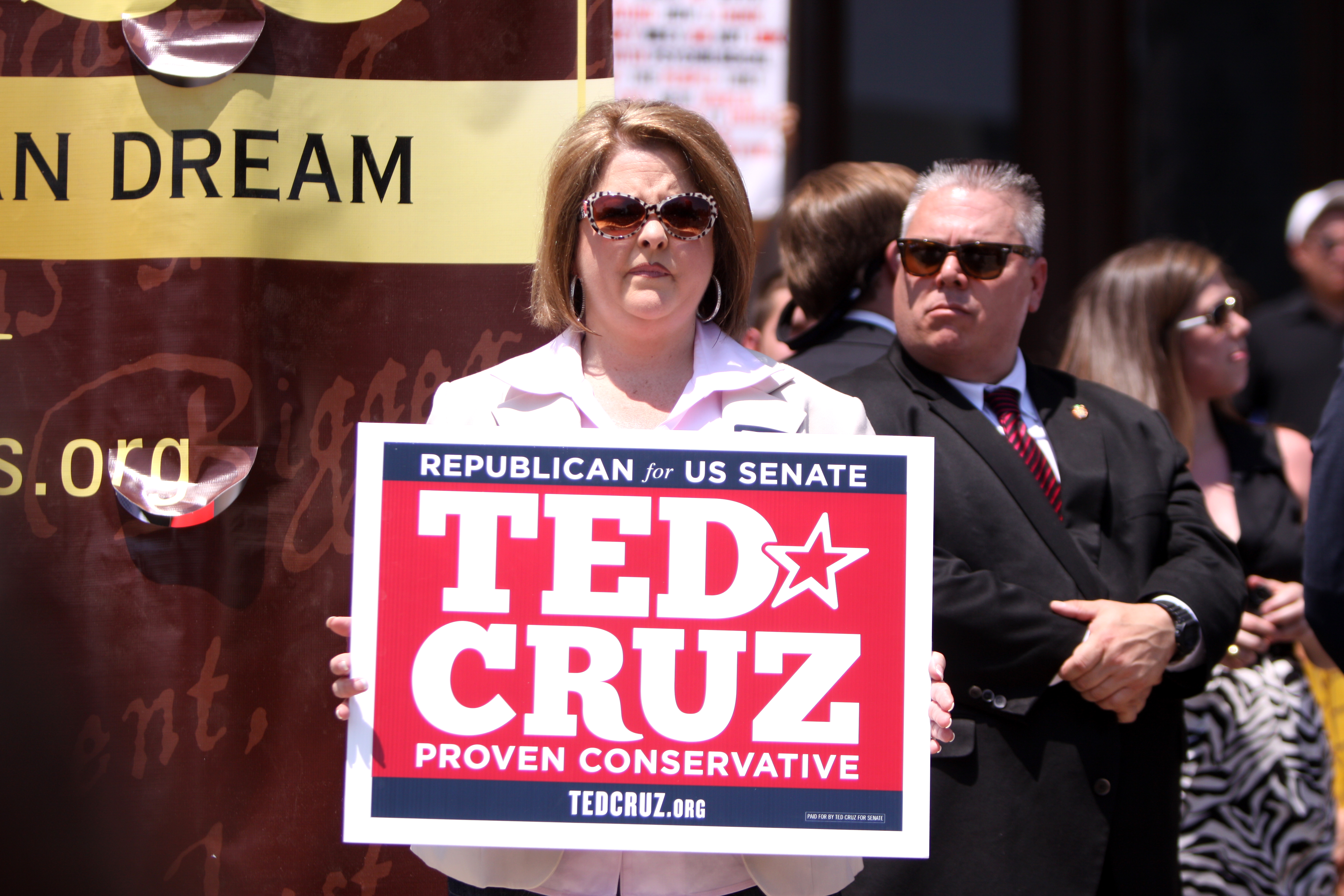 Amy Kremer speaking to Tea Party Express supporters at a rally in Austin, Texas.